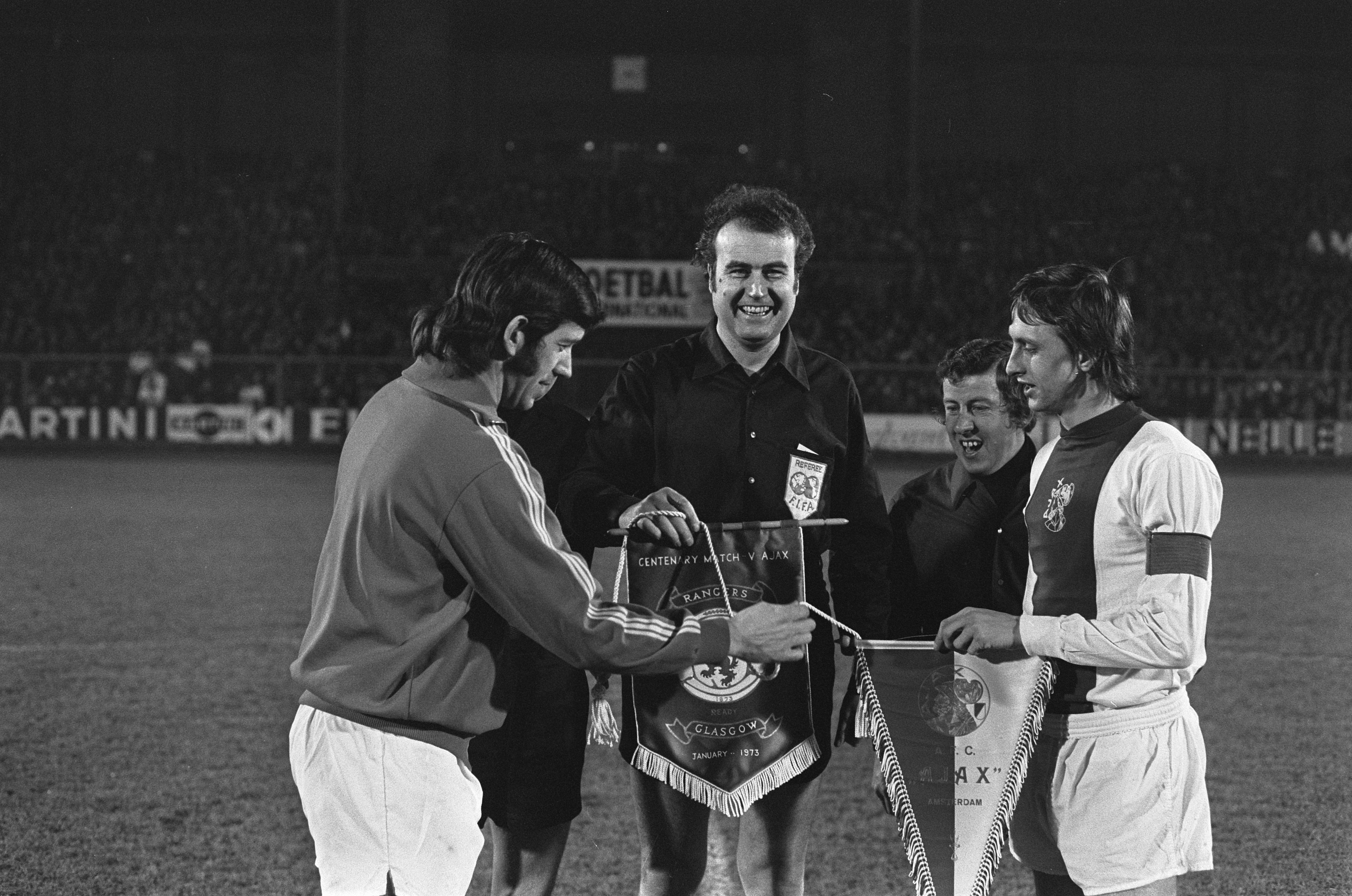 John Greig (?) & Johan Cruyff. Referee: Hans-Joachim Weyland (West Germany)